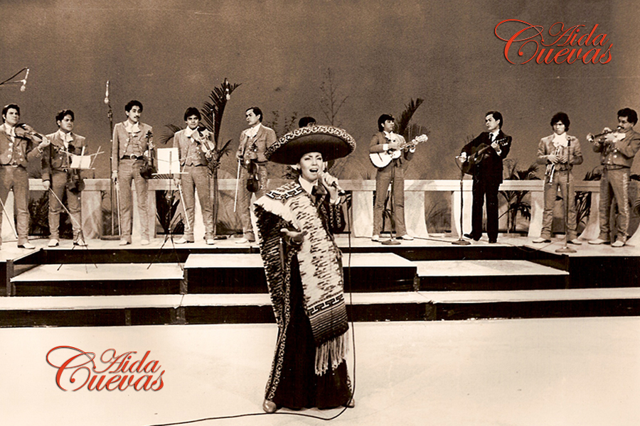 Aida Cuevas sings at young age during a morning tv show in Mexico City, circa 1980